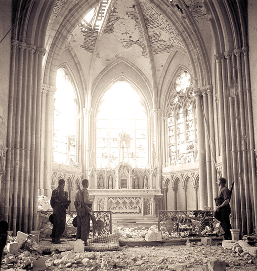 Unidentified Canadian Infantry in a Bombed Out Church in Carpiquet, near Caen, July 12, 1944. Photo: Ken Bell